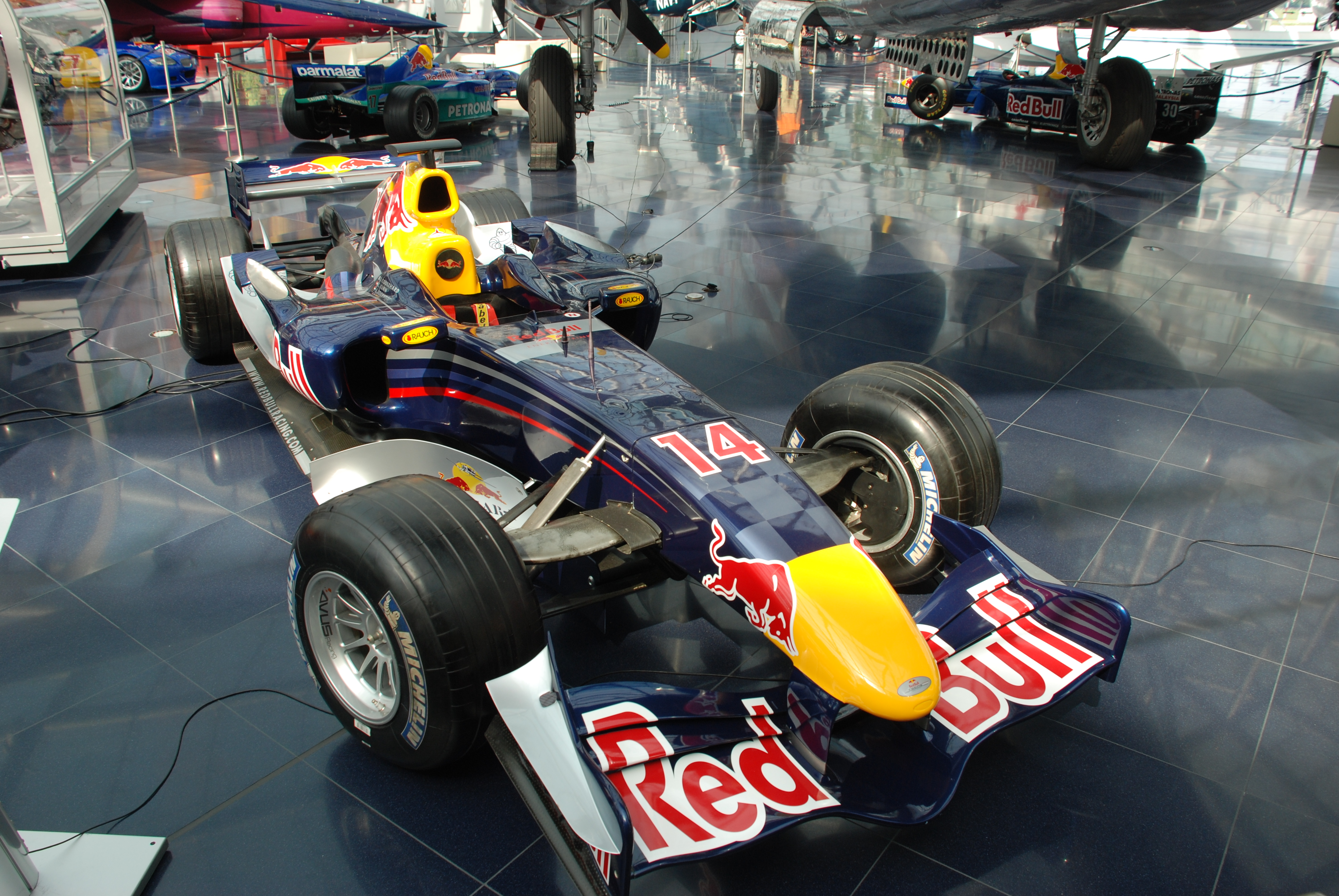 Red Bull RB2